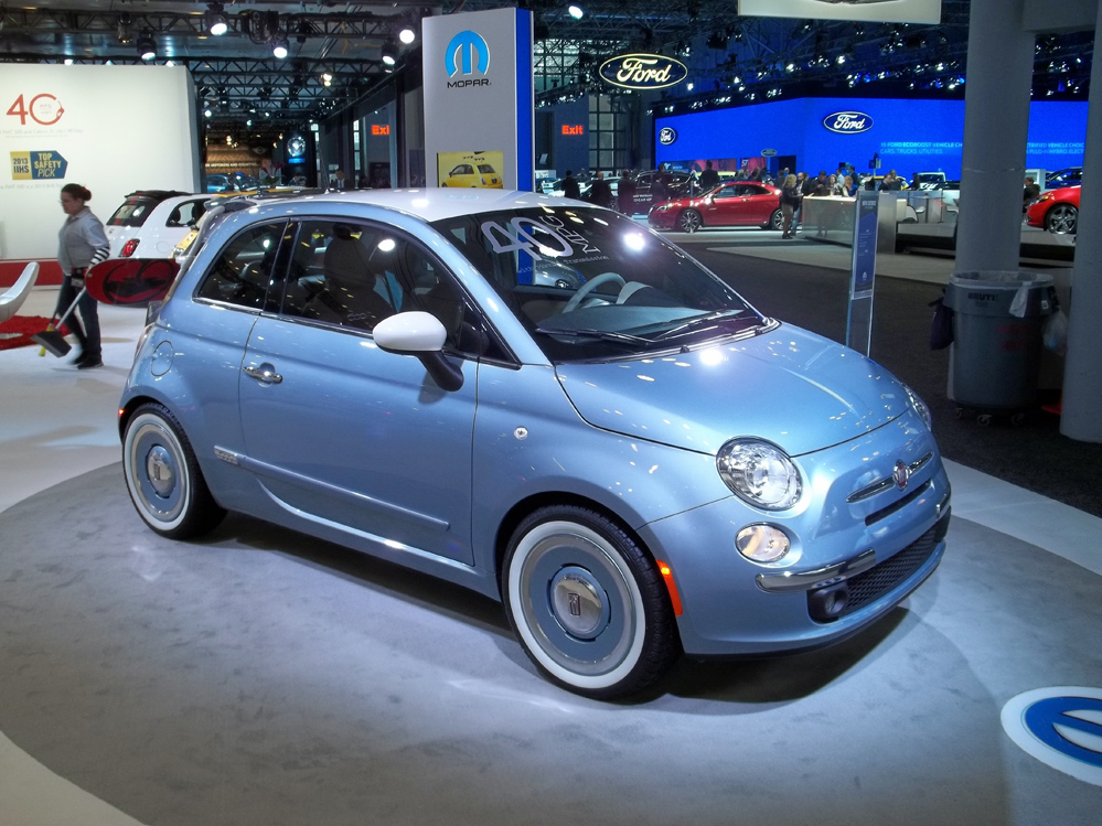 Sadly, the only car there with White wall tires was this Fiat showcar.